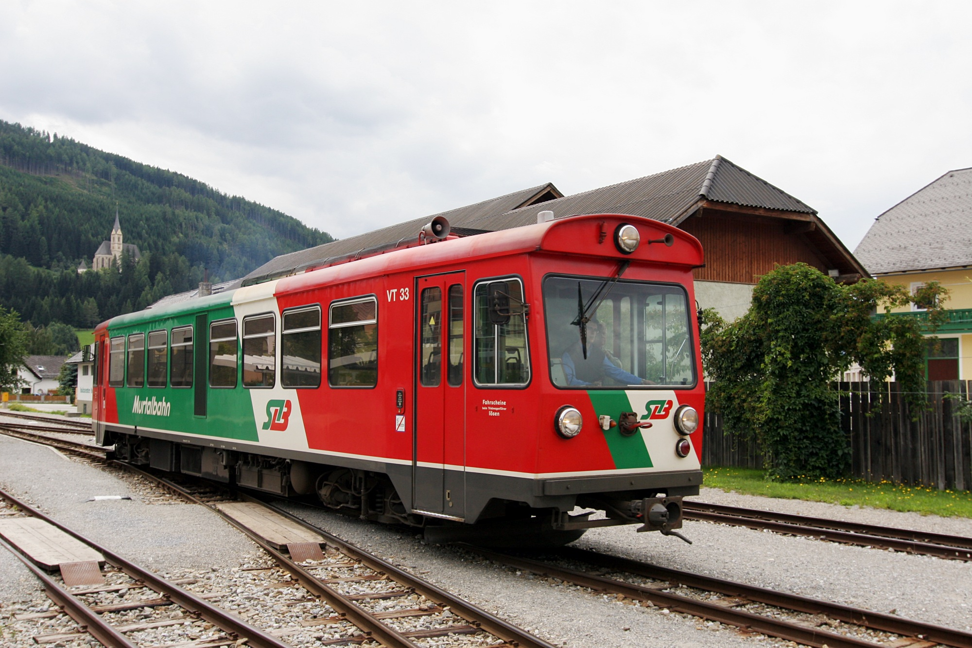 Steiermärkische Landesbahnen (StLB) VT33 railcar in Tamsweg